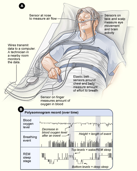 The illustration shows the standard setup for a polysomnogram. In figure A, the patient lies in a bed with sensors attached to the body. In figure B, the polysomnogram recording shows the blood oxygen level, breathing event, and rapid eye movement (REM) sleep stage over time.